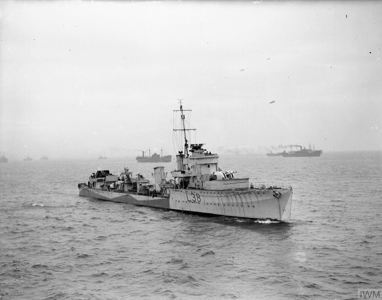 Photograph of V class destroyer HMS Vanity.